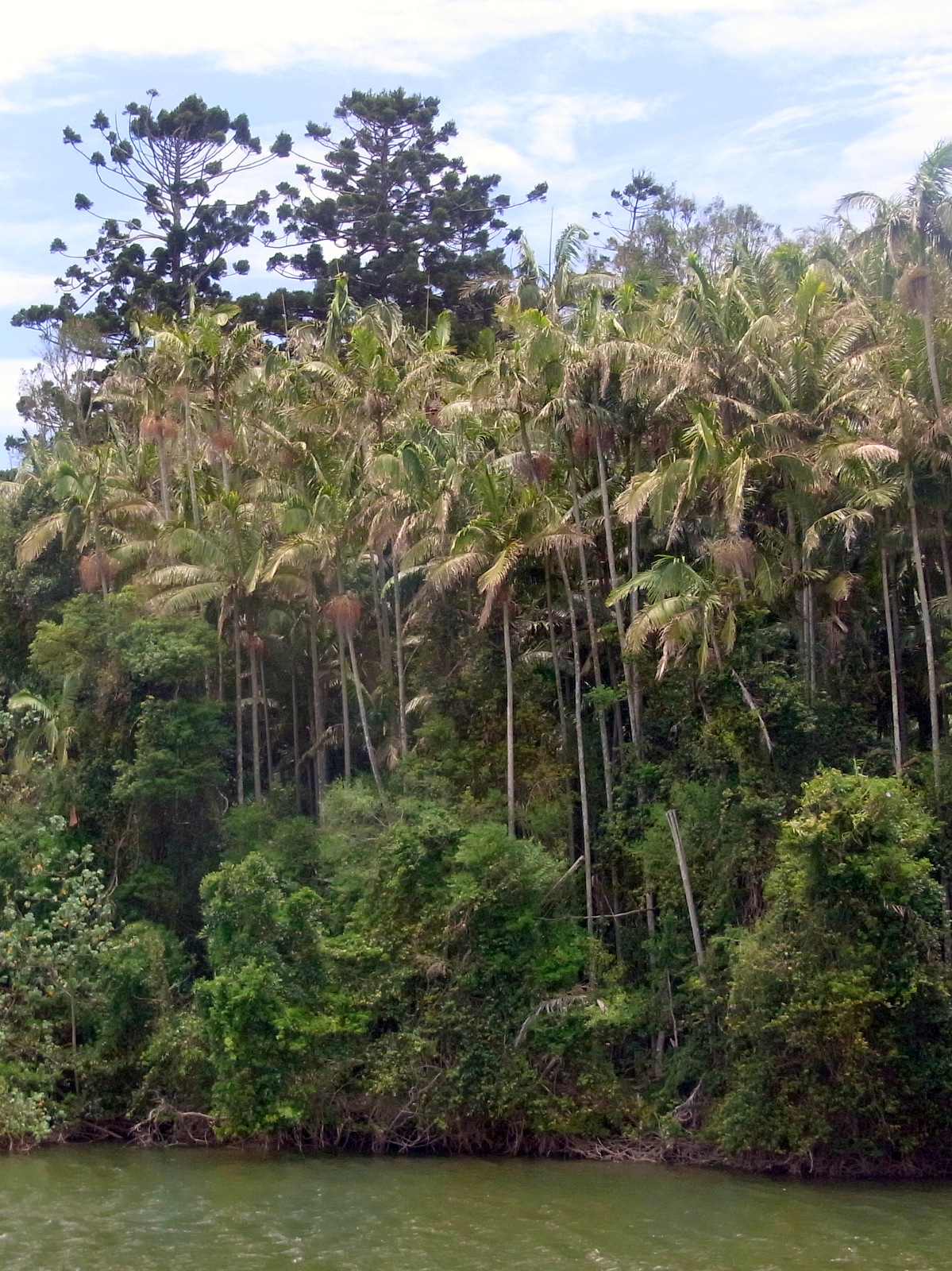 Stotts Island rainforest with Hoop Pine & Bangalow Palm, Tweed River, Australia